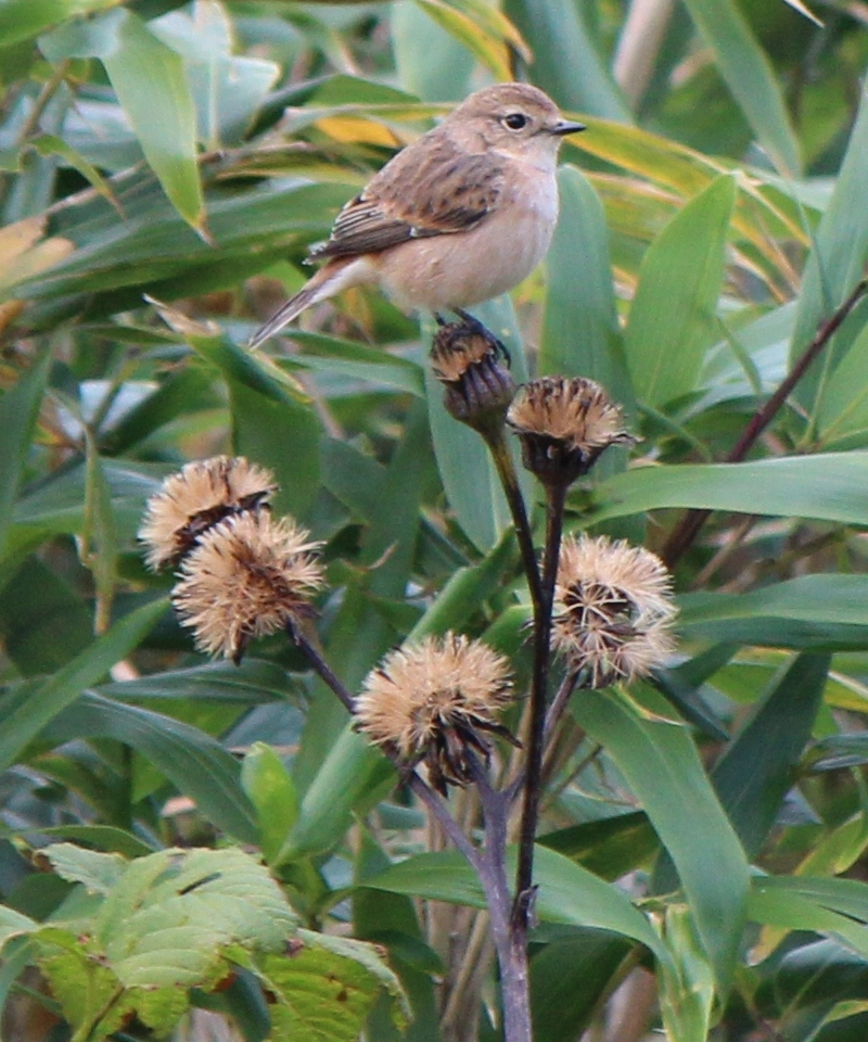 Saxicola stejnegeri (Stejneger's Stonechat), female in Japan.